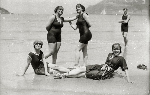 Girls in Kontxa beach.